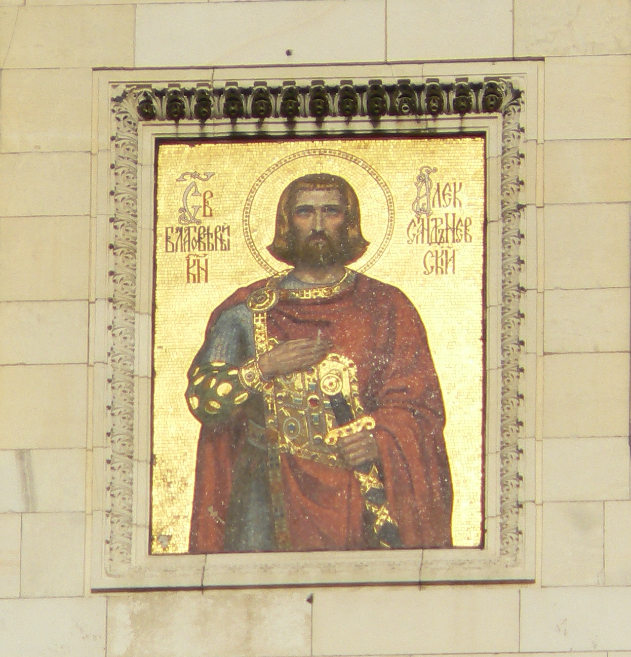 Icon of St. Alexander Nevsky, "Alexander Nevsky" Cathedral in Sofia, Bulgaria